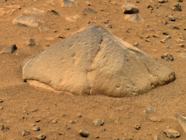 Original caption: "This approximate true color image taken by the panoramic camera onboard the Mars Exploration Rover Spirit shows "Adirondack," the rover's first target rock. Spirit traversed the sandy martian terrain at Gusev Crater to arrive in front of the football-sized rock on Sunday, Jan. 18, 2004, just three days after it successfully rolled off the lander. The rock was selected as Spirit's first target because its dust-free, flat surface is ideally suited for grinding. Clean surfaces also are better for examining a rock's top coating. Scientists named the angular rock after the Adirondack mountain range in New York. The word Adirondack is Native American and means "They of the great rocks." "